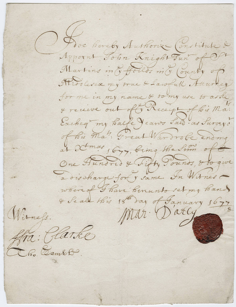 Author/Creator: Darly, Mar Date: 1677 January 1 Physical Description: 19 x 15 cm. Folder or box number: Folder 4157 Genre/Form: Manuscripts Cite as: James Marshall and Marie Louise Osborn Collection, Beinecke Rare Book and Manuscript Library, Yale University Repository: Beinecke Rare Book & Manuscript Library, Yale University Bibliographic Record Number: 2033616 Call Number: OSB MSS FILE View our Record: Permalink